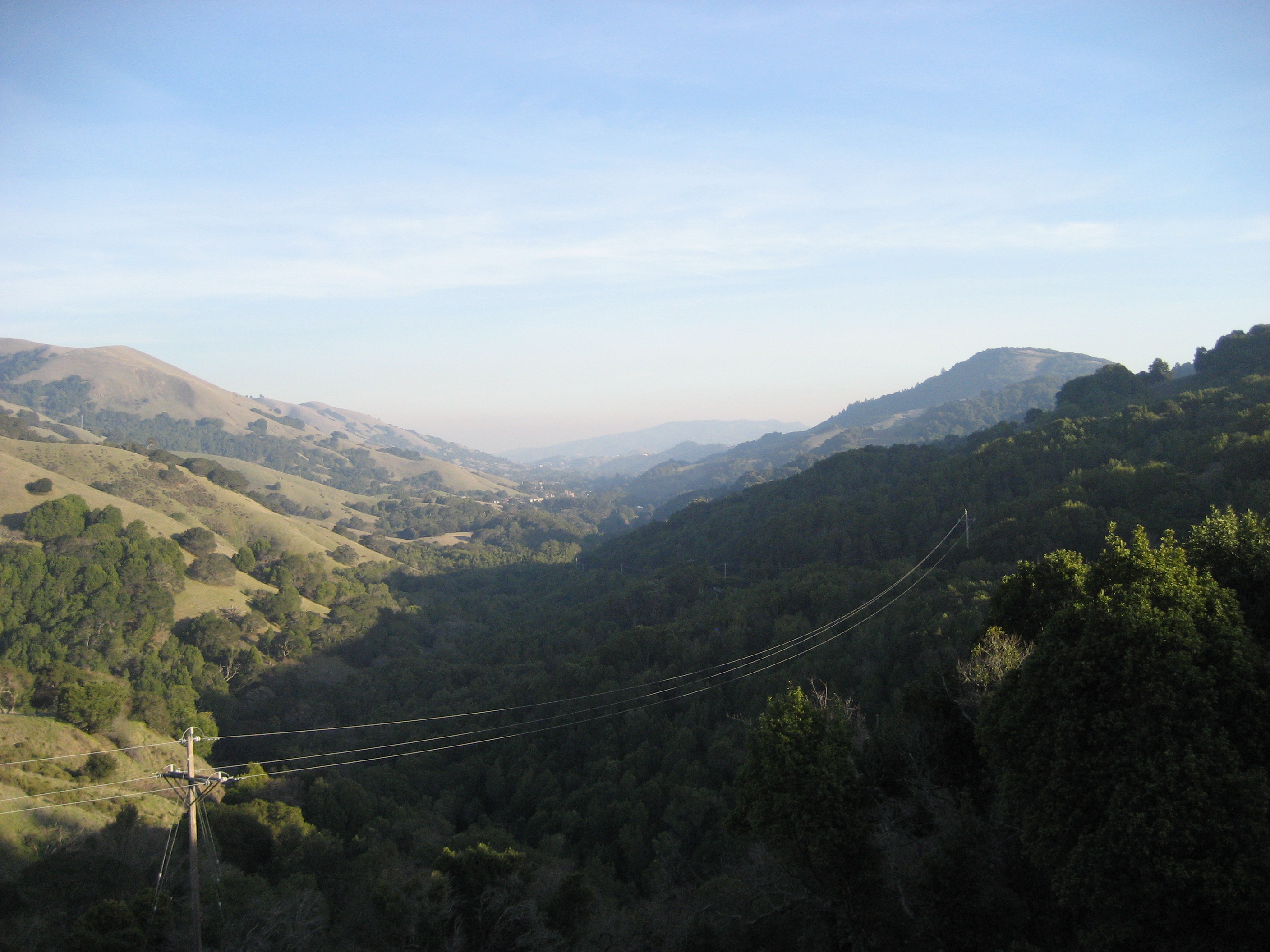 A photograph of Las Gallinas Valley, Marin County, California.